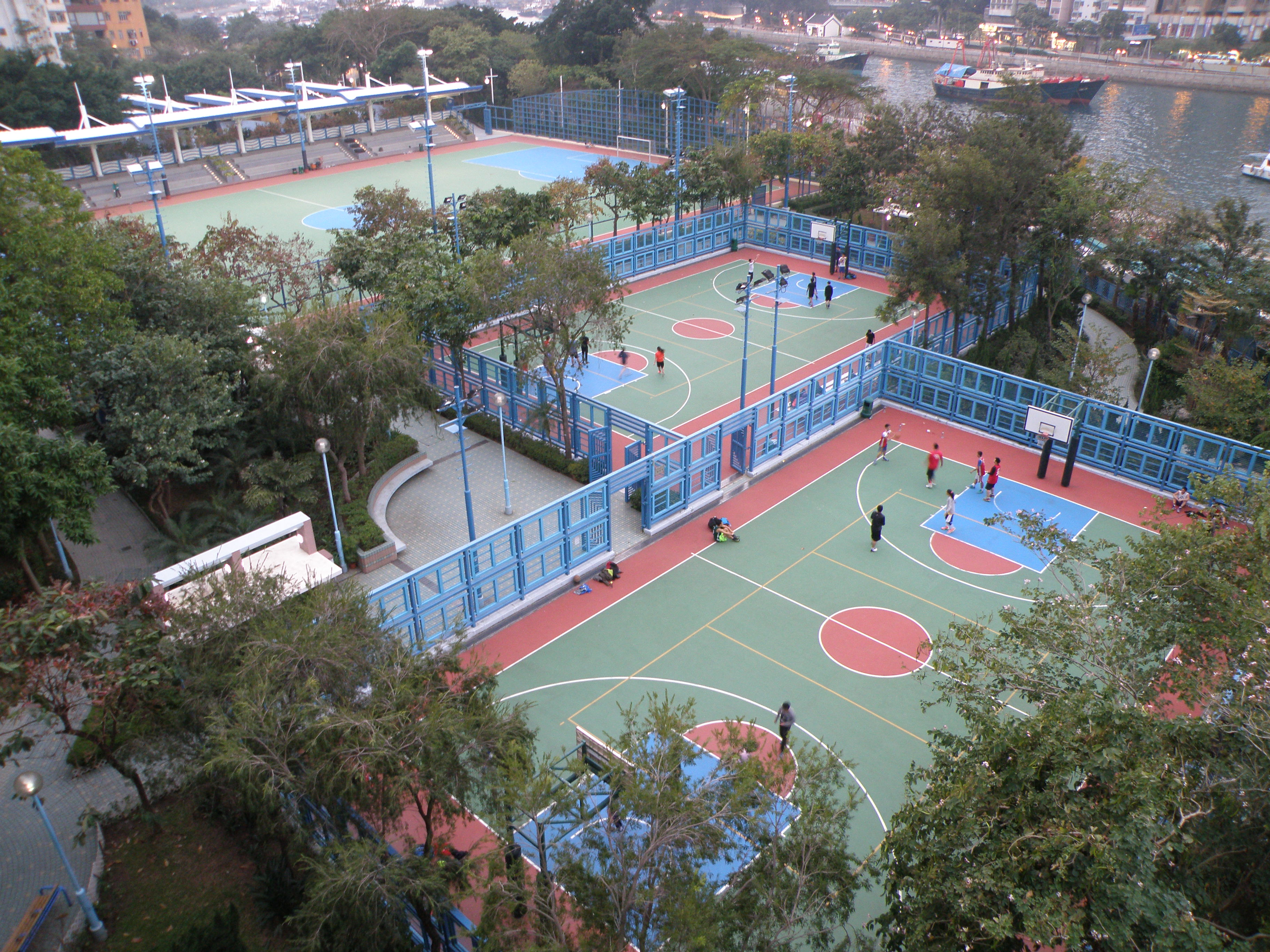 Ap Lei Chau Park in Ap Lei Chau, Hong Kong.